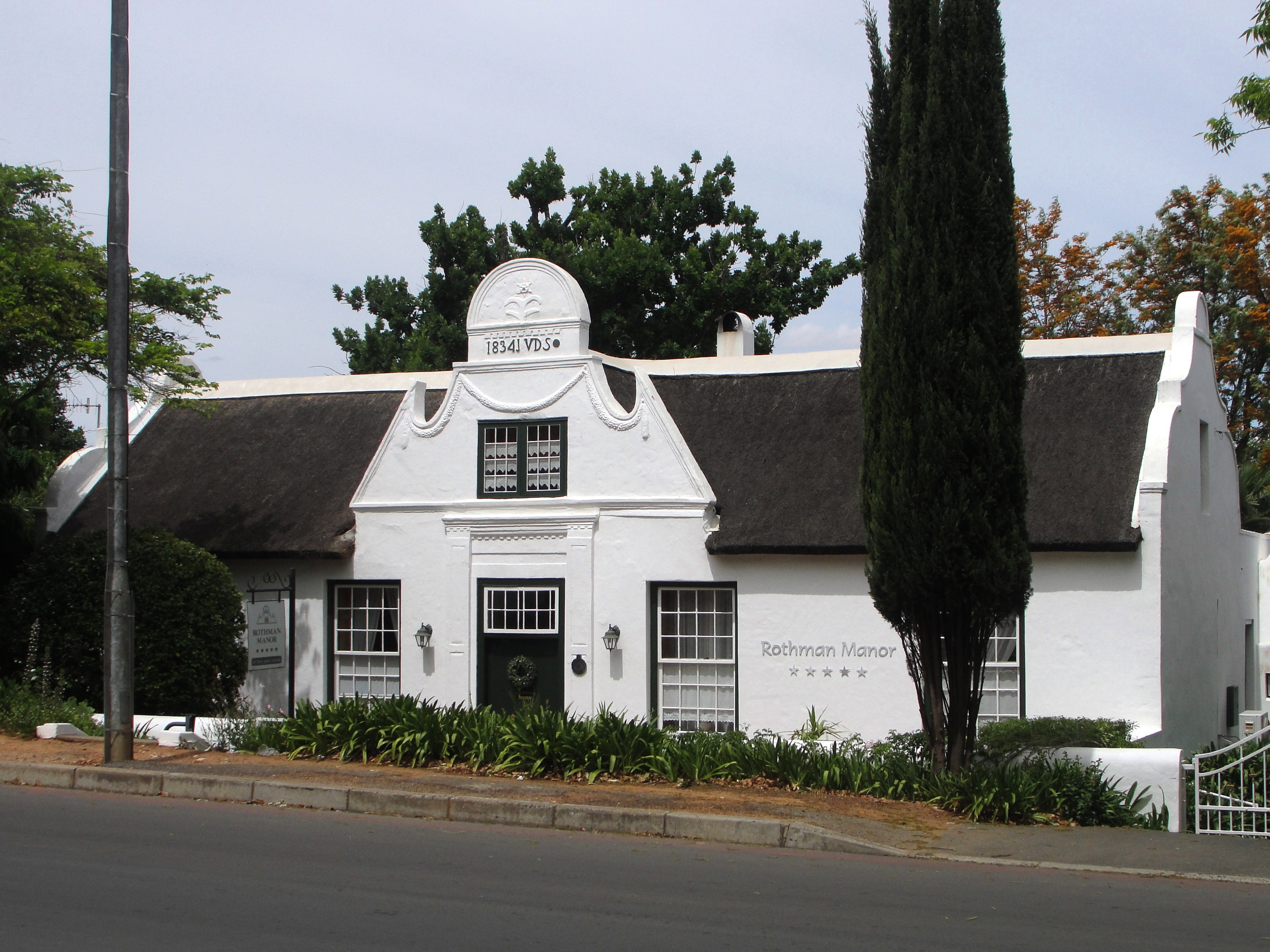 JVDS House in Swellendam This media shows a South African Protected Site with SAHRA file reference 9/2/092/0026.